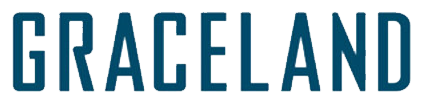 This is the logo for the USA Network Original Series Graceland